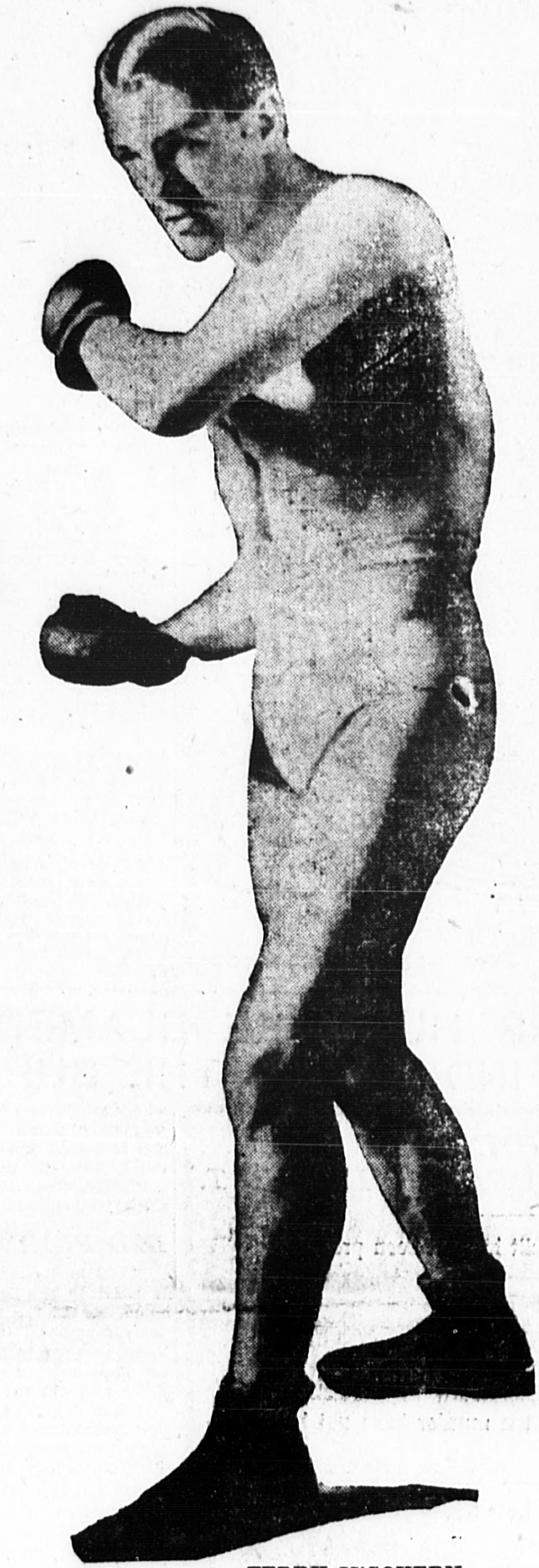 Terry McGovern